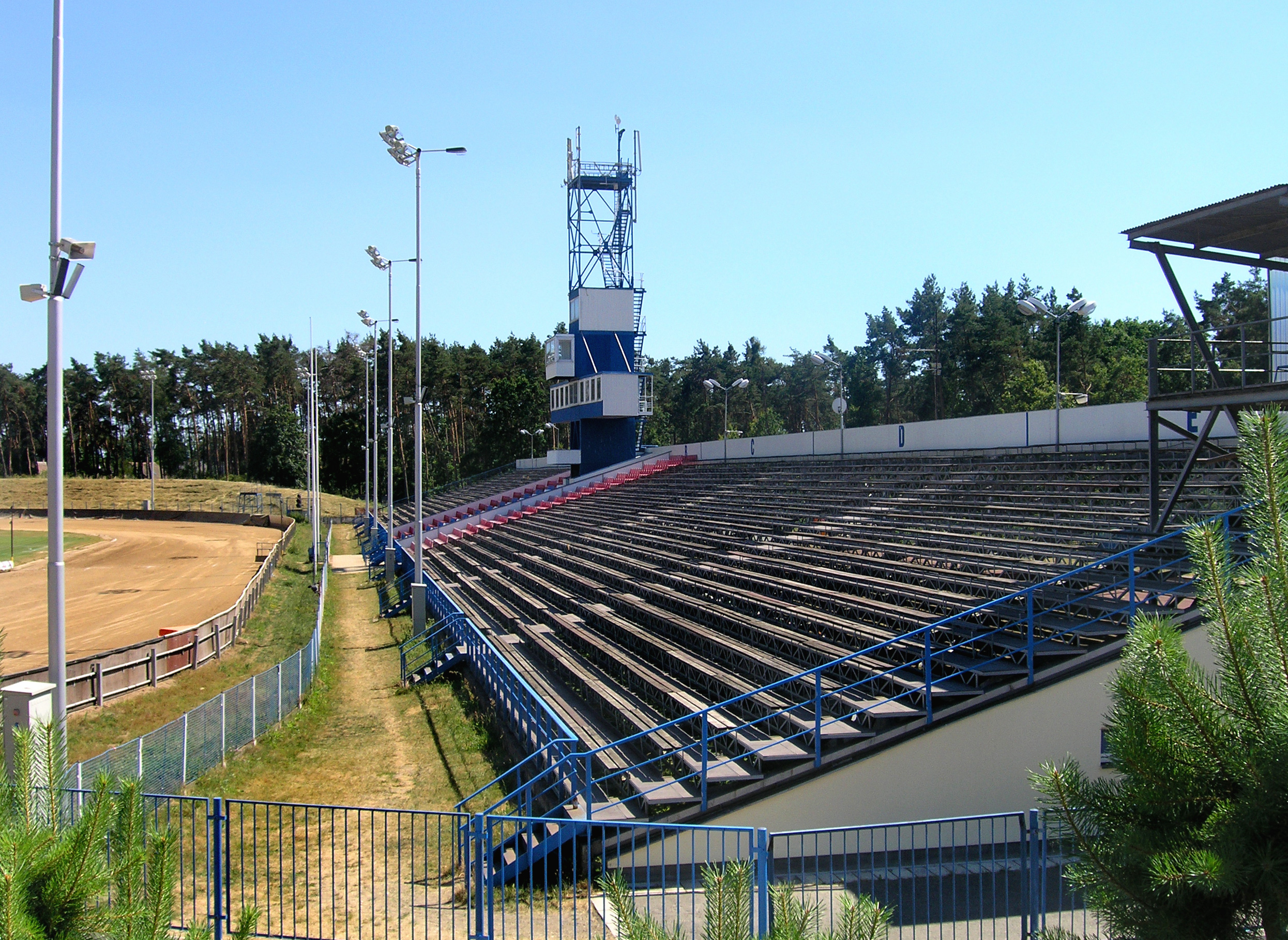 Stadium of Golden helmet in Pardubice, Czech Republic